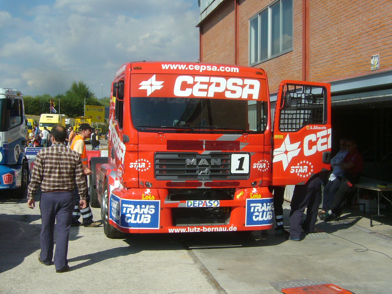 MAN truck from CEPSA-MAN team in the 2007 Grand Prix of Spain of the European Truck Championship celebrated in Jarama track race of Madrid, driven by Antonio Albacete